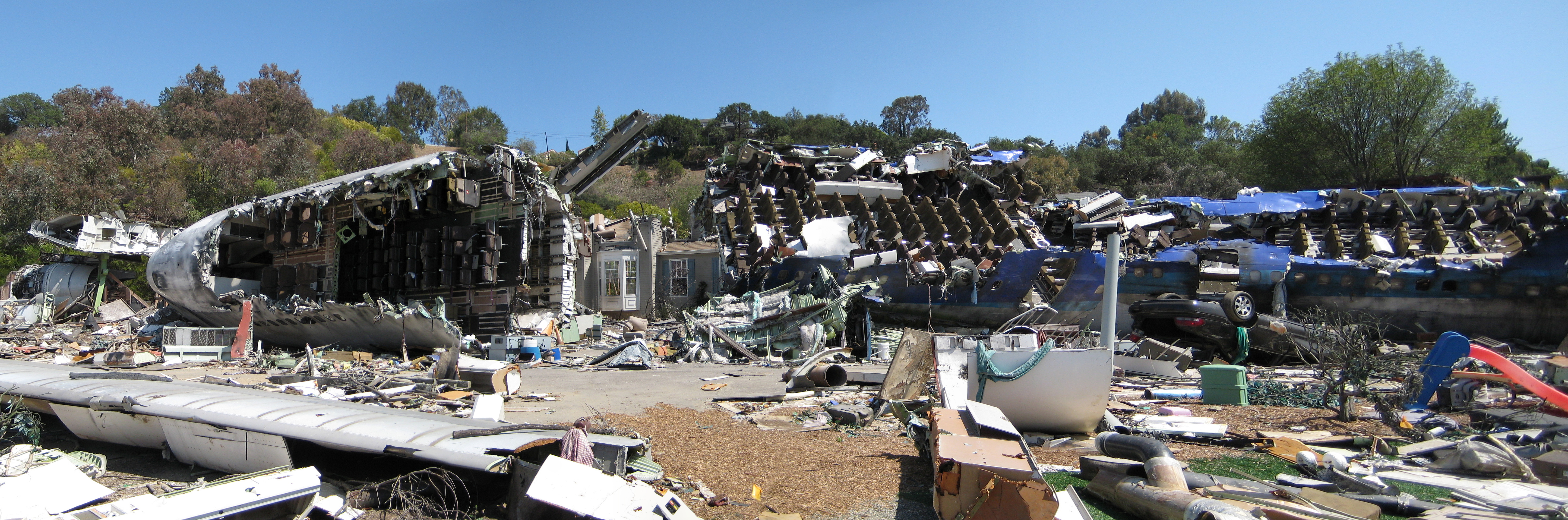 Panoramic photo of a portion of the War of the Worlds (2005) set in the Universal Studios backlot in Hollywood, CA.